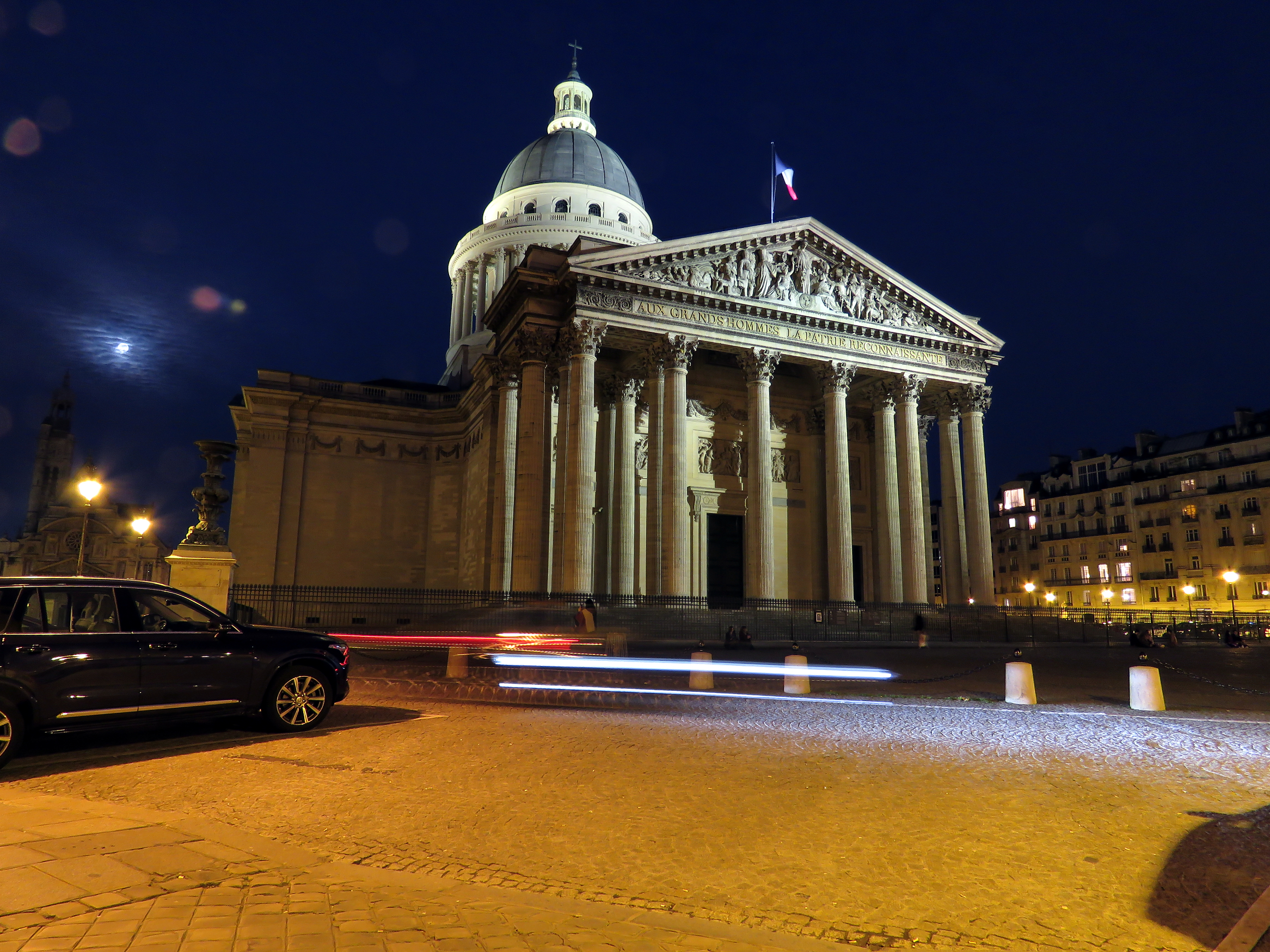 Panthéon de Paris - Long exposure with moon in background and motion-blured cars in forground.